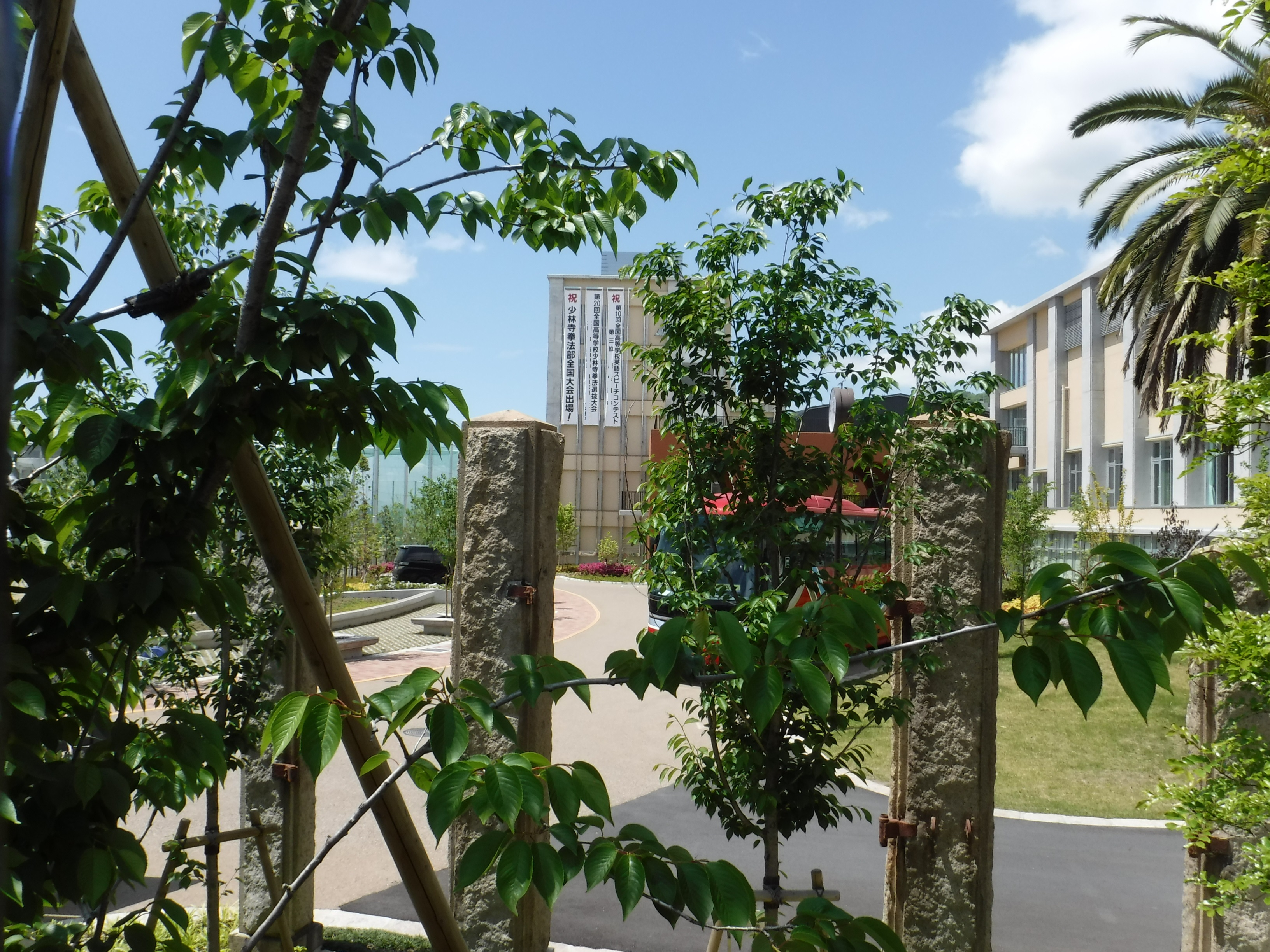 Monument of stone pillars (rear side) in Kobe Municipal Fukiai High School. The pillars are the ruins of the south gate of Kobe Higher Commercial School (a predecessor of Kobe University) once located in this site.